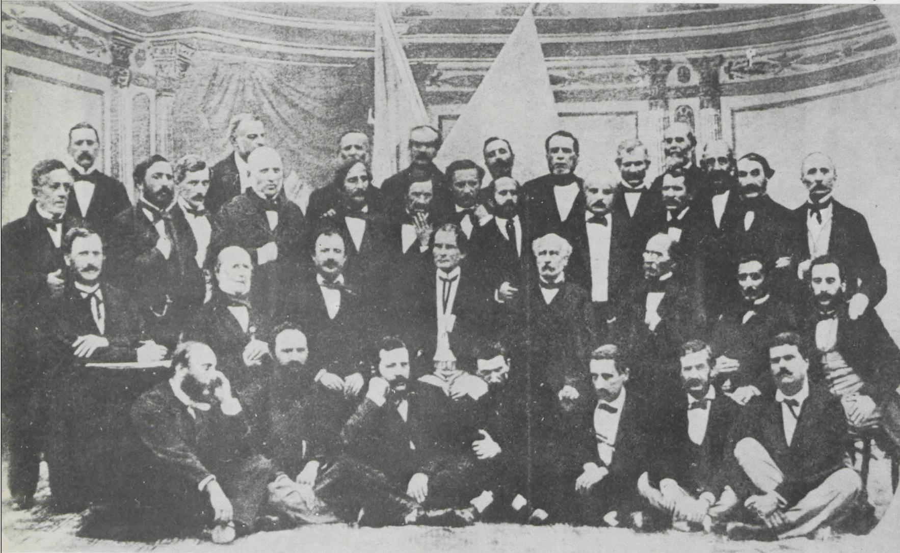 Assembly representatives of the United States of the Ionian Islands after voting in favour of unification with Greece